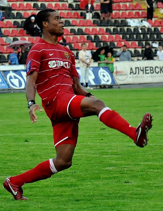 Adolphe Teikeu, Cameroonian footballer, during the game for FC Metalurh Zaporizhya